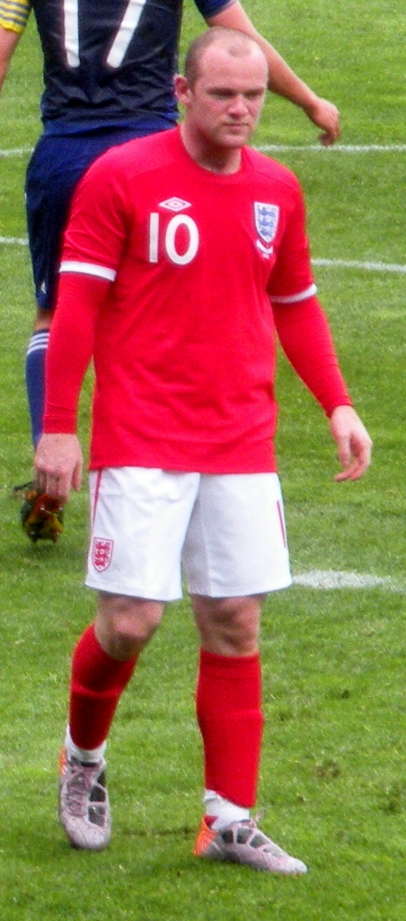 Wayne Rooney, friendly between Japan and England in Graz (Austria) on 30 May 2010